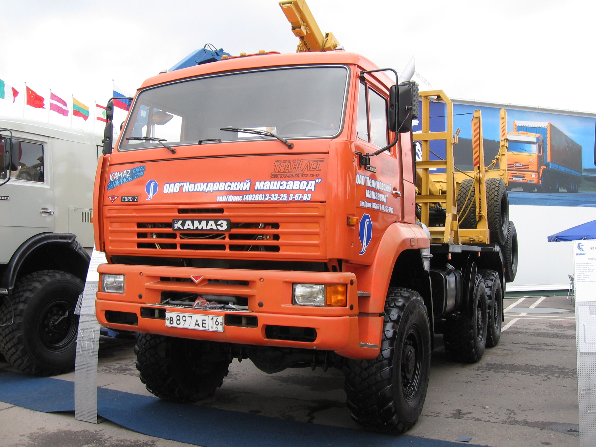 KAMAZ-65224 Moscow MIMS